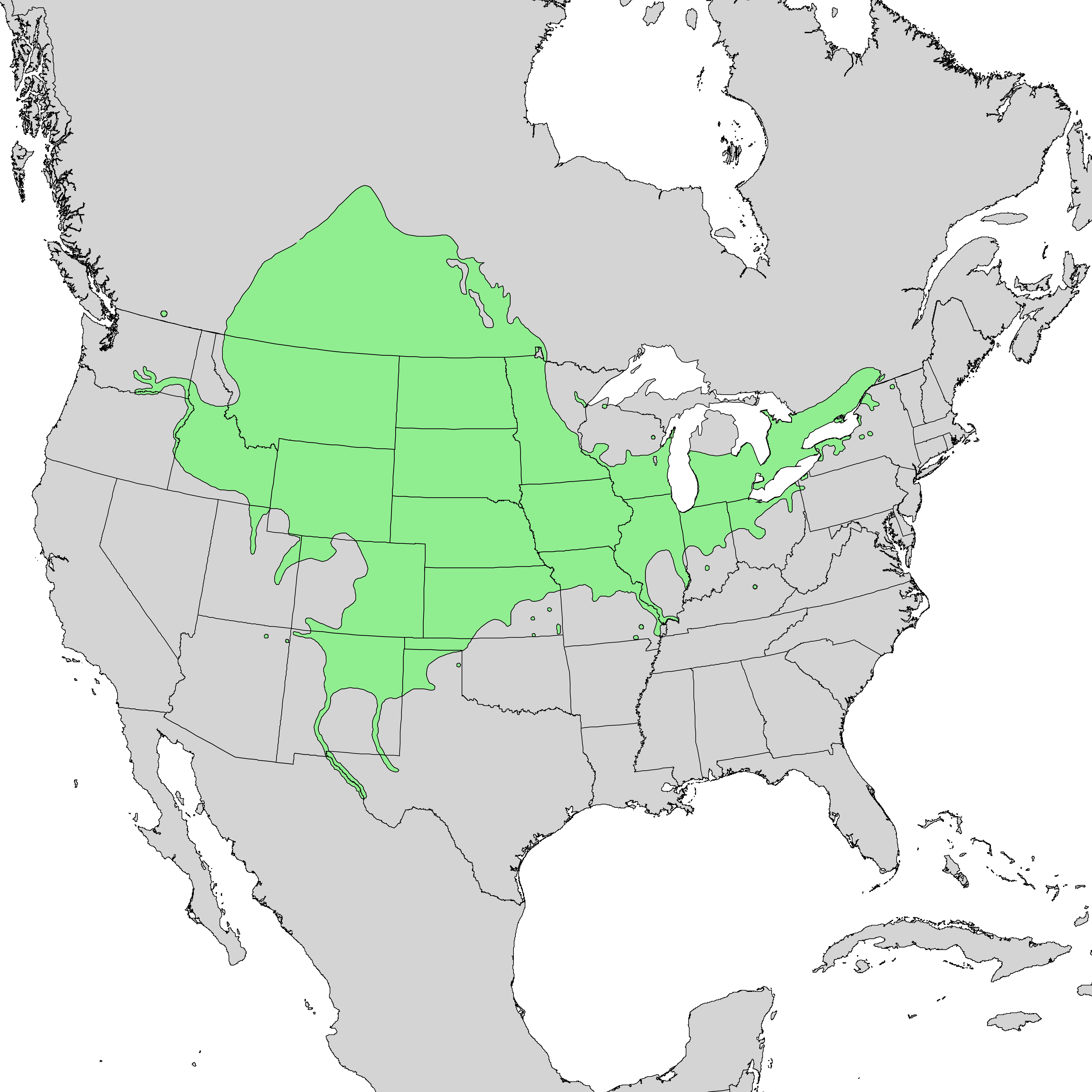 Natural distribution map for Salix amygdaloides (peachleaf willow)